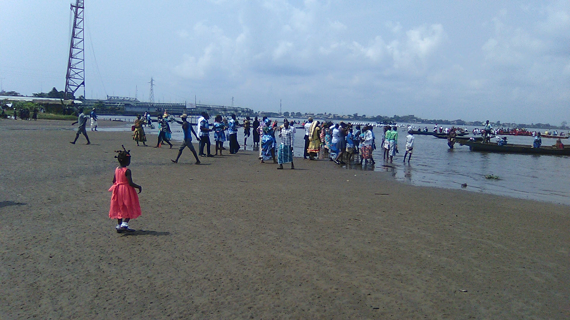 This is an image with the theme "Africa on the Move or Transport" from: Cameroon